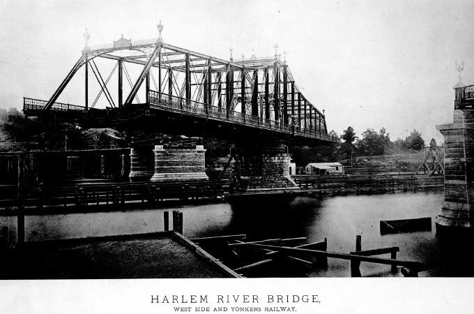 A photograph of the Putnam Bridge, carrying the 9th Avenue Elevated over the Harlem River until 1960. This is Plate V of the Album of Designs of the Phœnix Bridge Company (author and photographer not credited), published 1885 by JB Lippincott & Co. Copyright has expired. Scan by Joseph Brennan, posted with his permission.